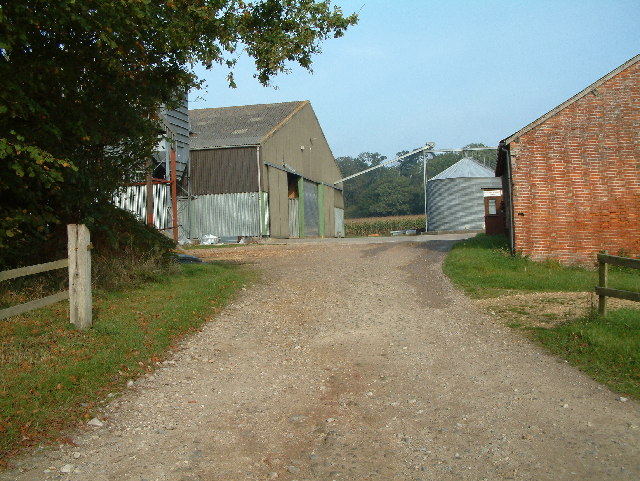 Beckley Farm, near New Milton, Hampshire. The building on the right is a grain store.